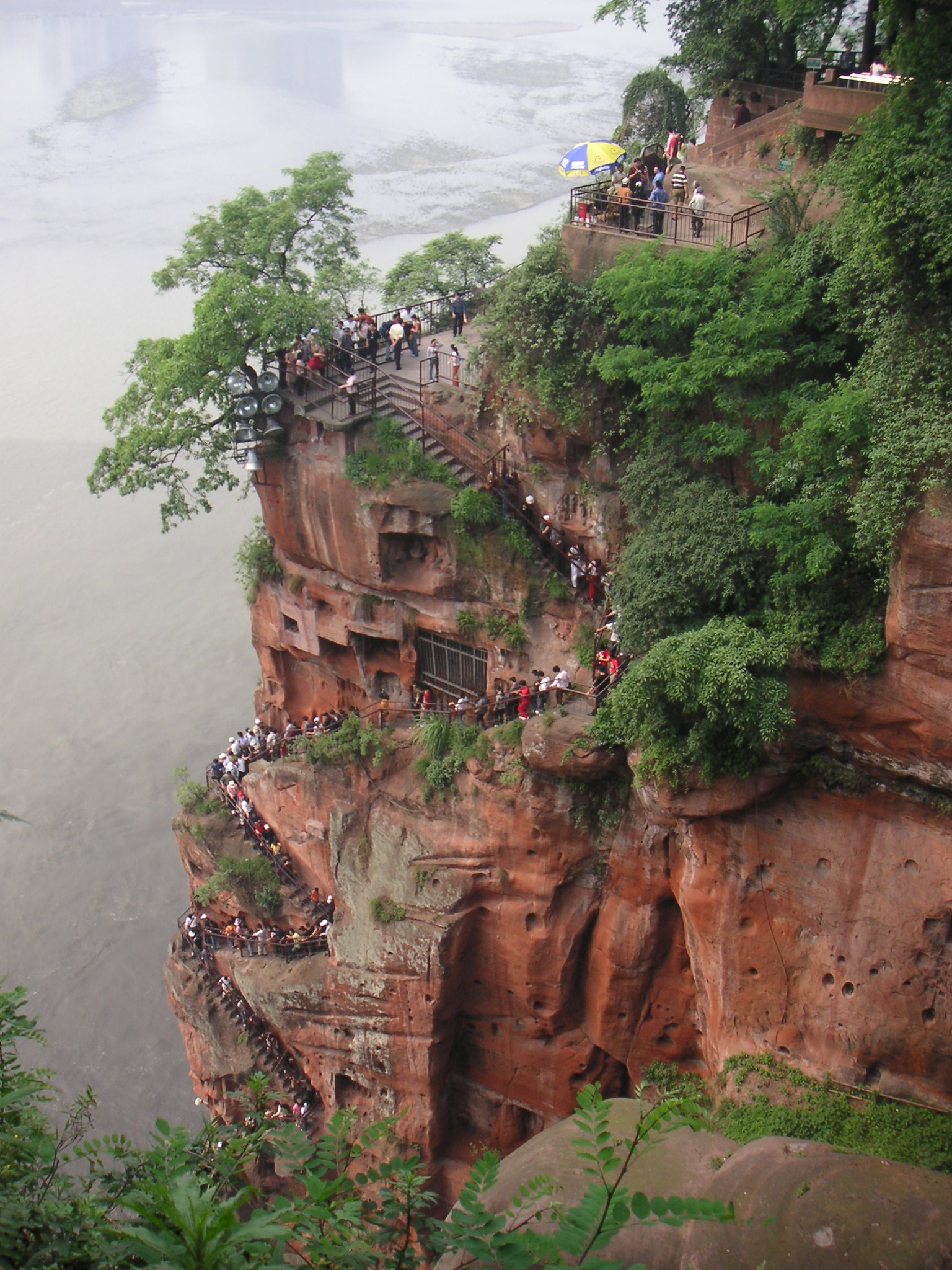 Mount Emei Scenic Area, including Leshan Giant Buddha Scenic Area (China)